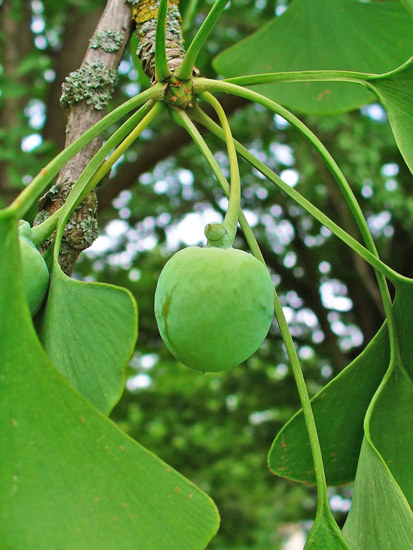 Ginkgo biloba, Ginkgoaceae, Ginkgo, developping fruits; Karlsruhe, Germany. The fresh leaves are used in homeopathy as remedy: Ginkgo biloba (Gink-b.)